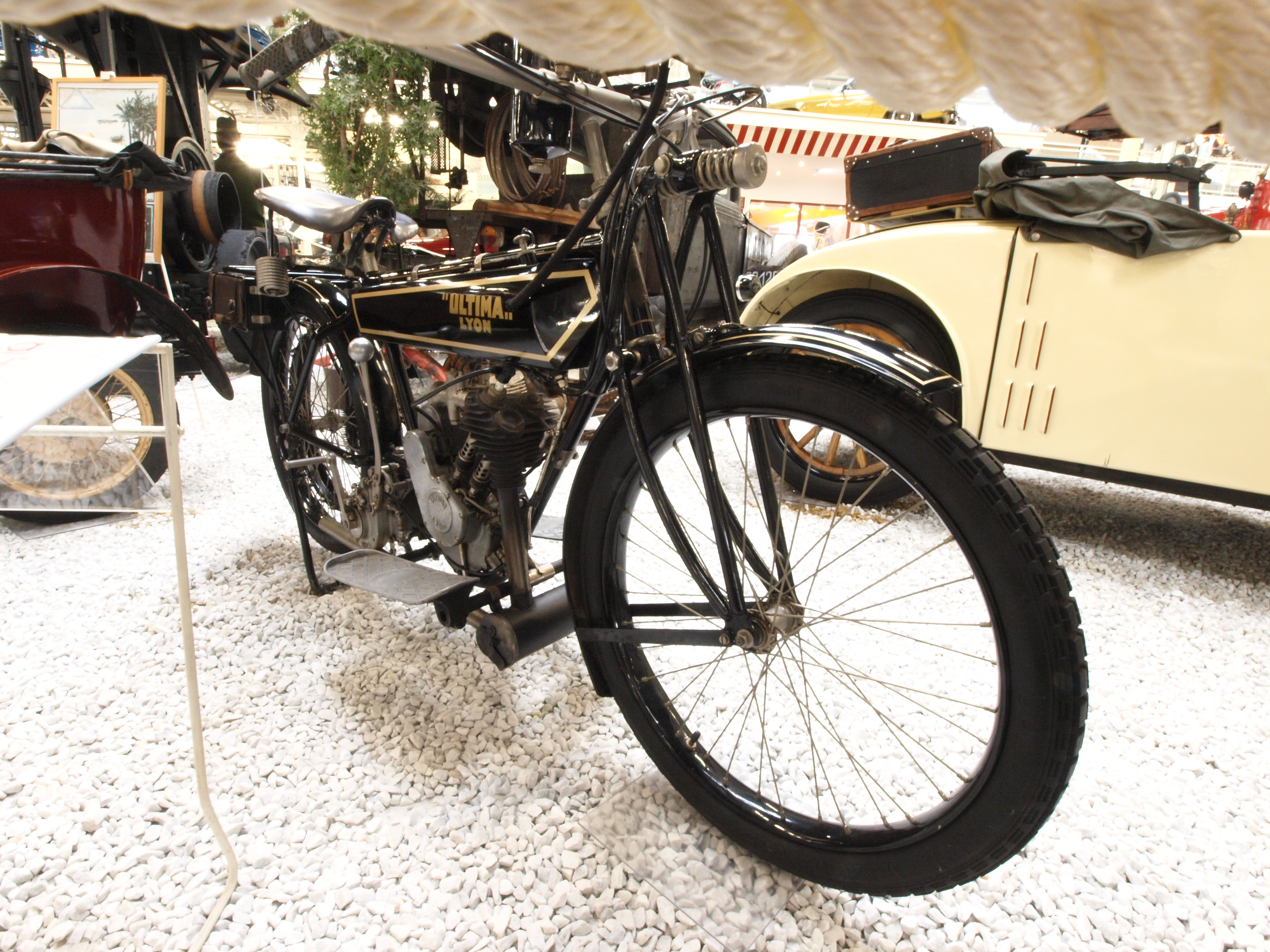 Ultima EB 1064 400 cc (1922-1923) at the Auto & Technic museum Sinsheim